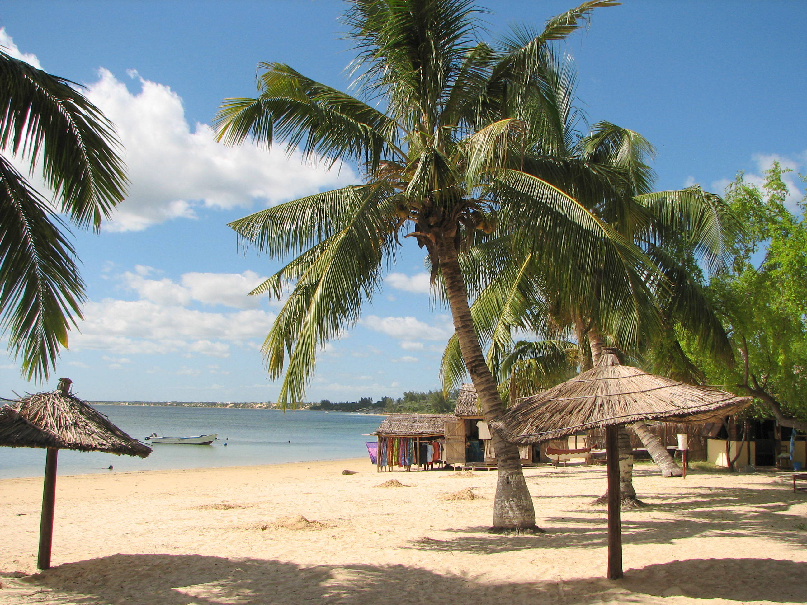 Mangily beach near Toliara, Madagascar